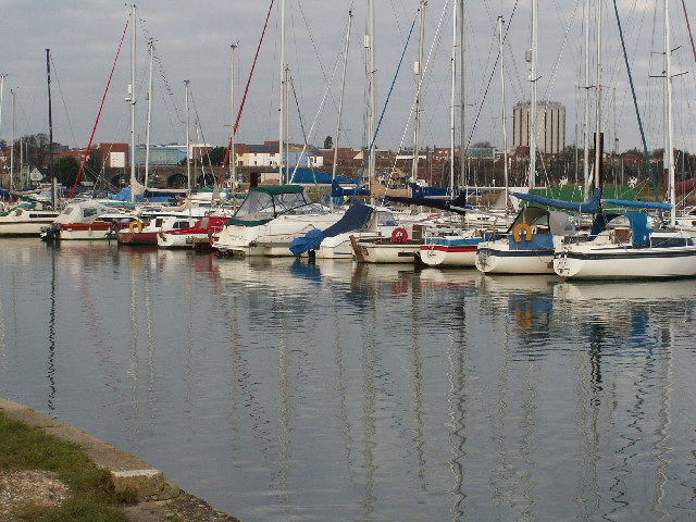 Fareham Creek.